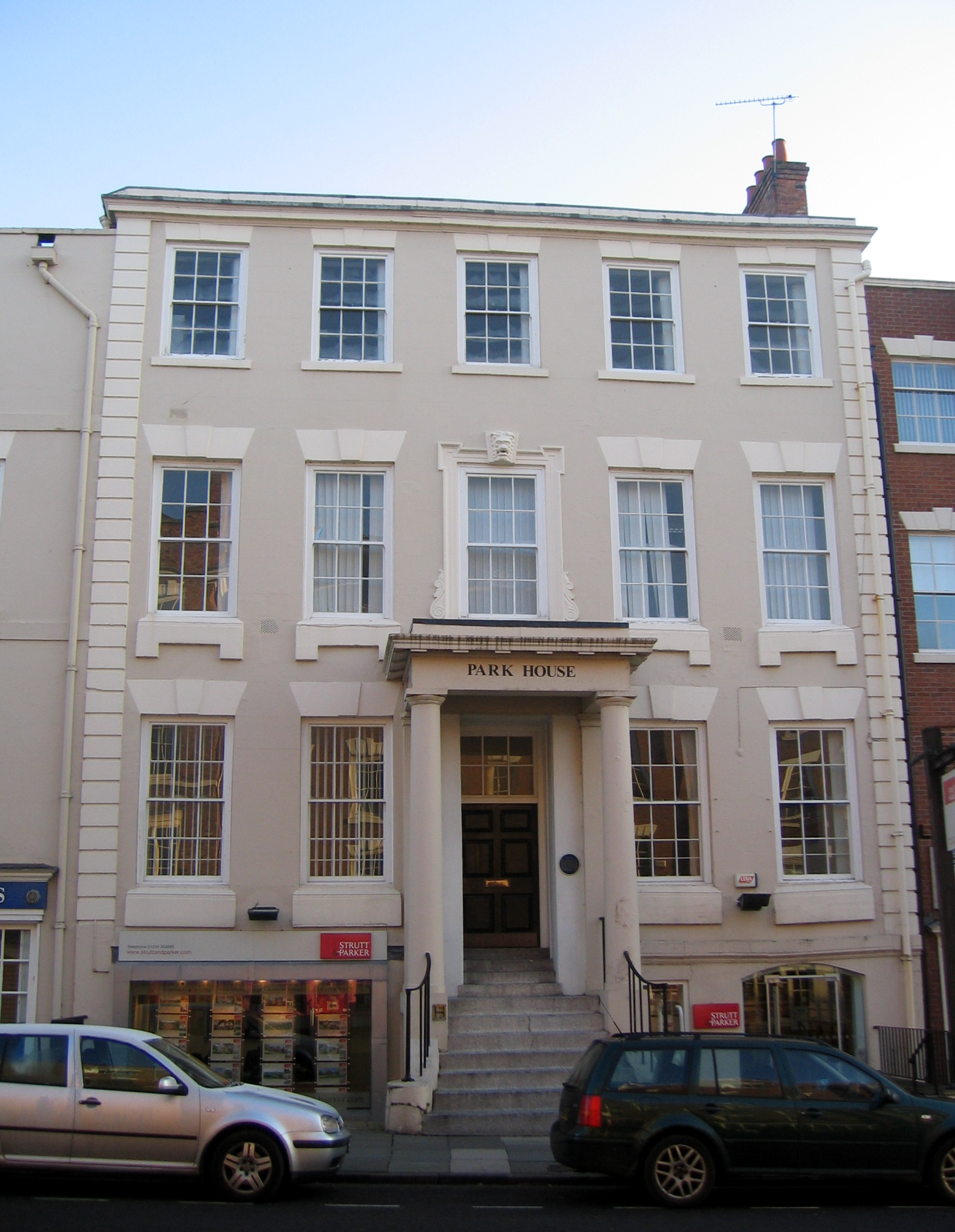 Photograph of Park House, Chester